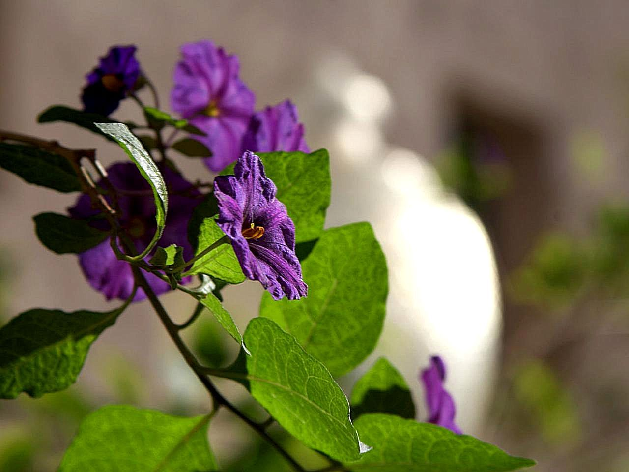 Image title: Nightshade flowers Image from Public domain images website